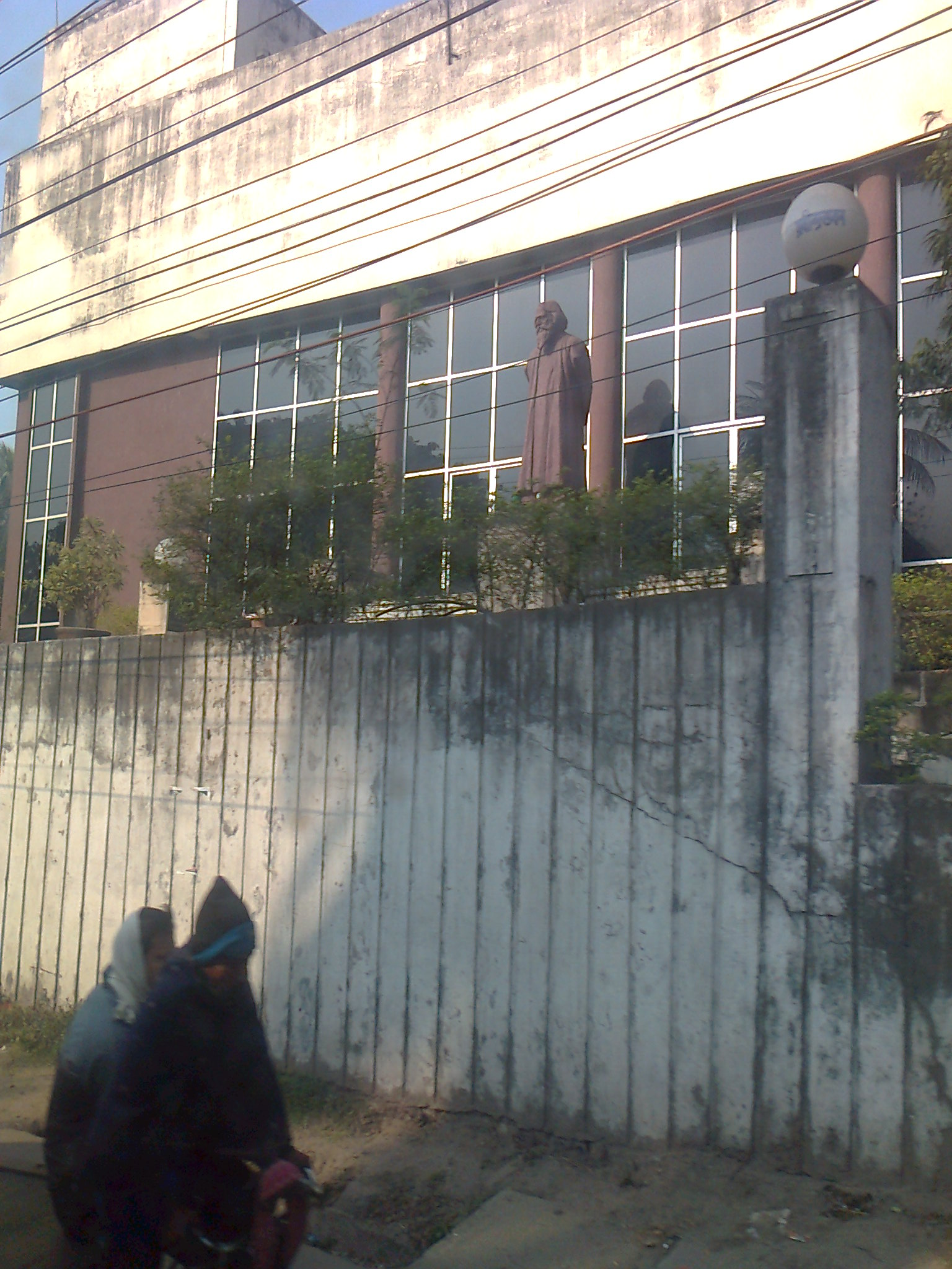 Took this snap by Nokia C2-01 mobile camera with 3.2 resolution